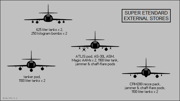 Front-view silhouettes of the Dassault Super Etendard showing external stores